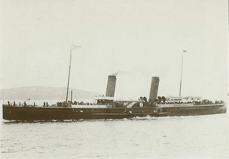 Mona (II)